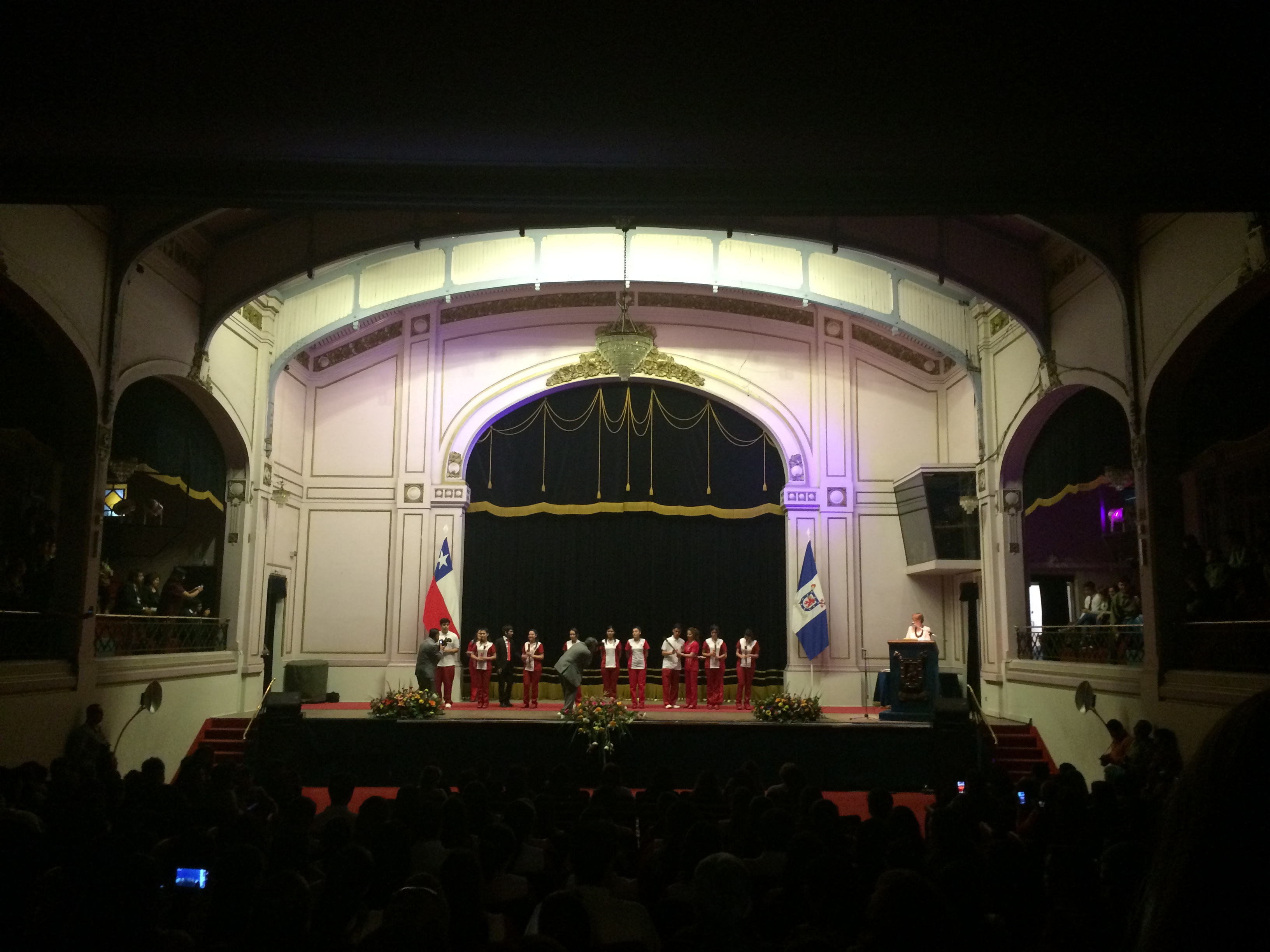 Ceremonia Titulación alumnos de la institución.